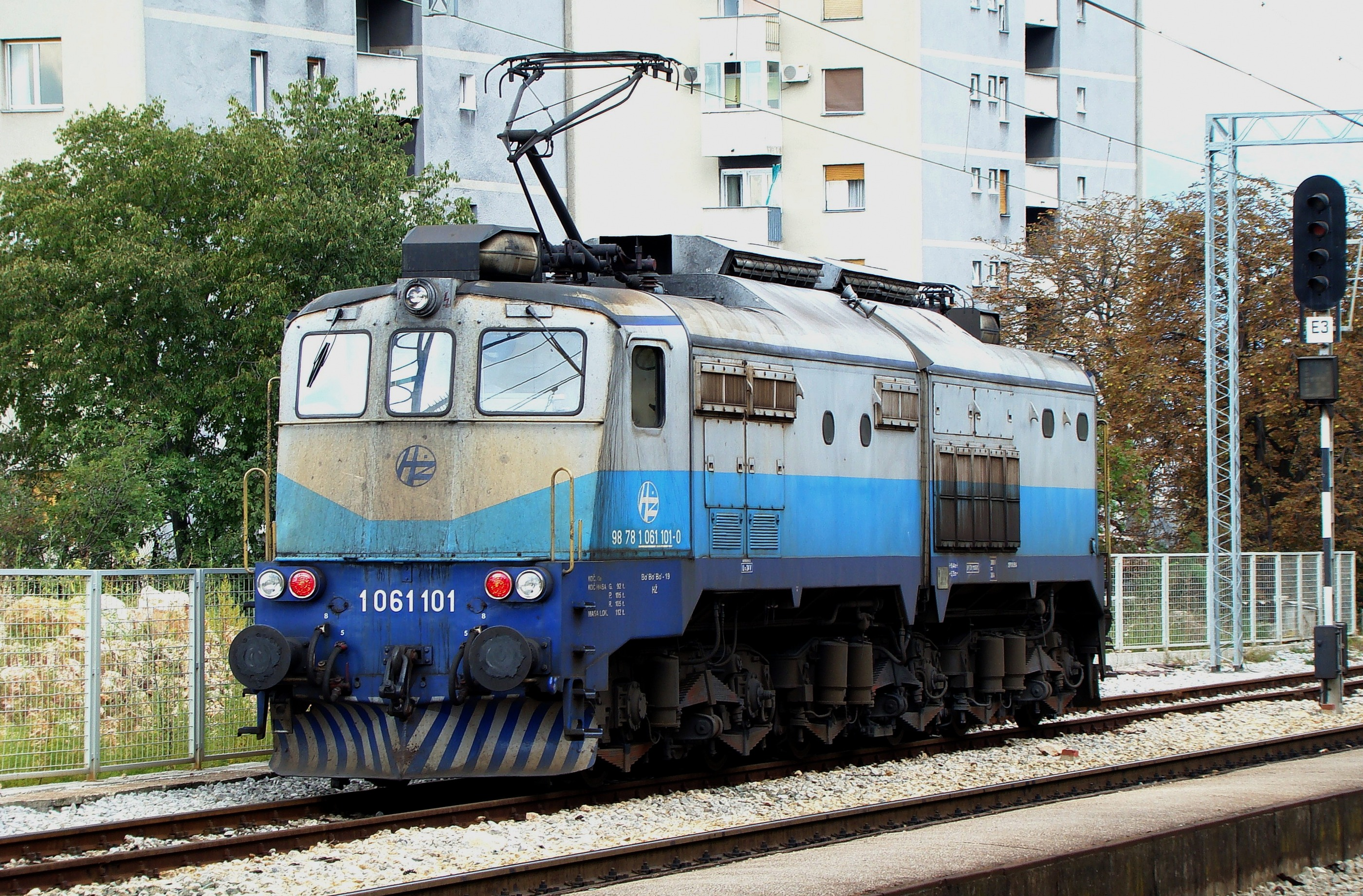 A HŽ 1061 series locomotive in Rijeka, Croatia